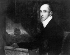 From the U.S. Senate historical office